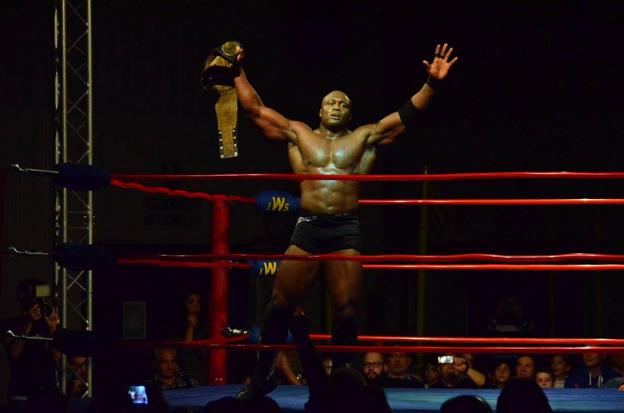 bobby lashley winning heavyweight title in IWS italy